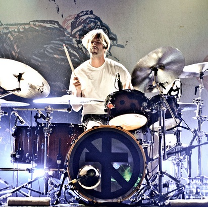 Brooks Wackerman performing live with Bad Religion